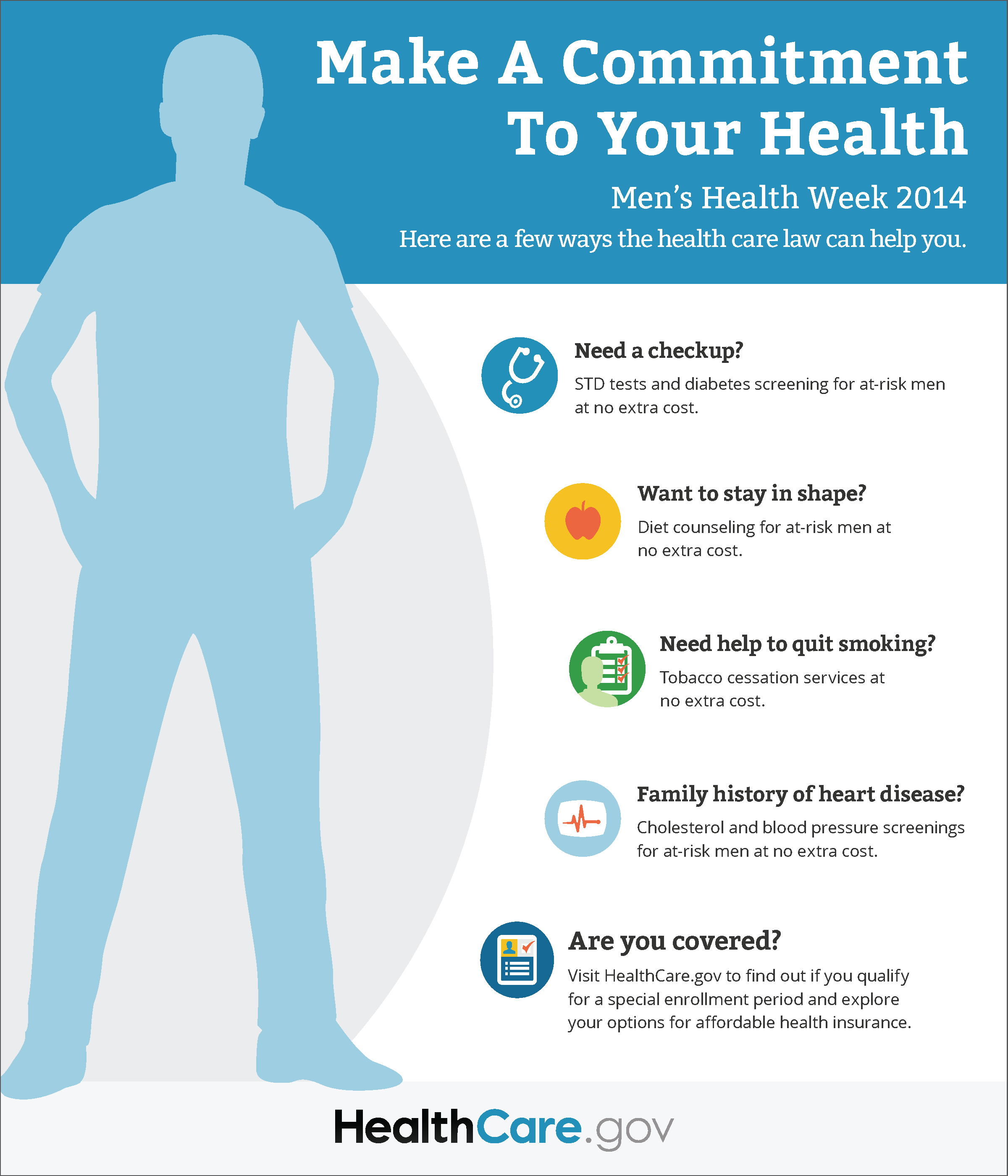 Men's Health Week 2014.Here are a few ways the health care law can help you.